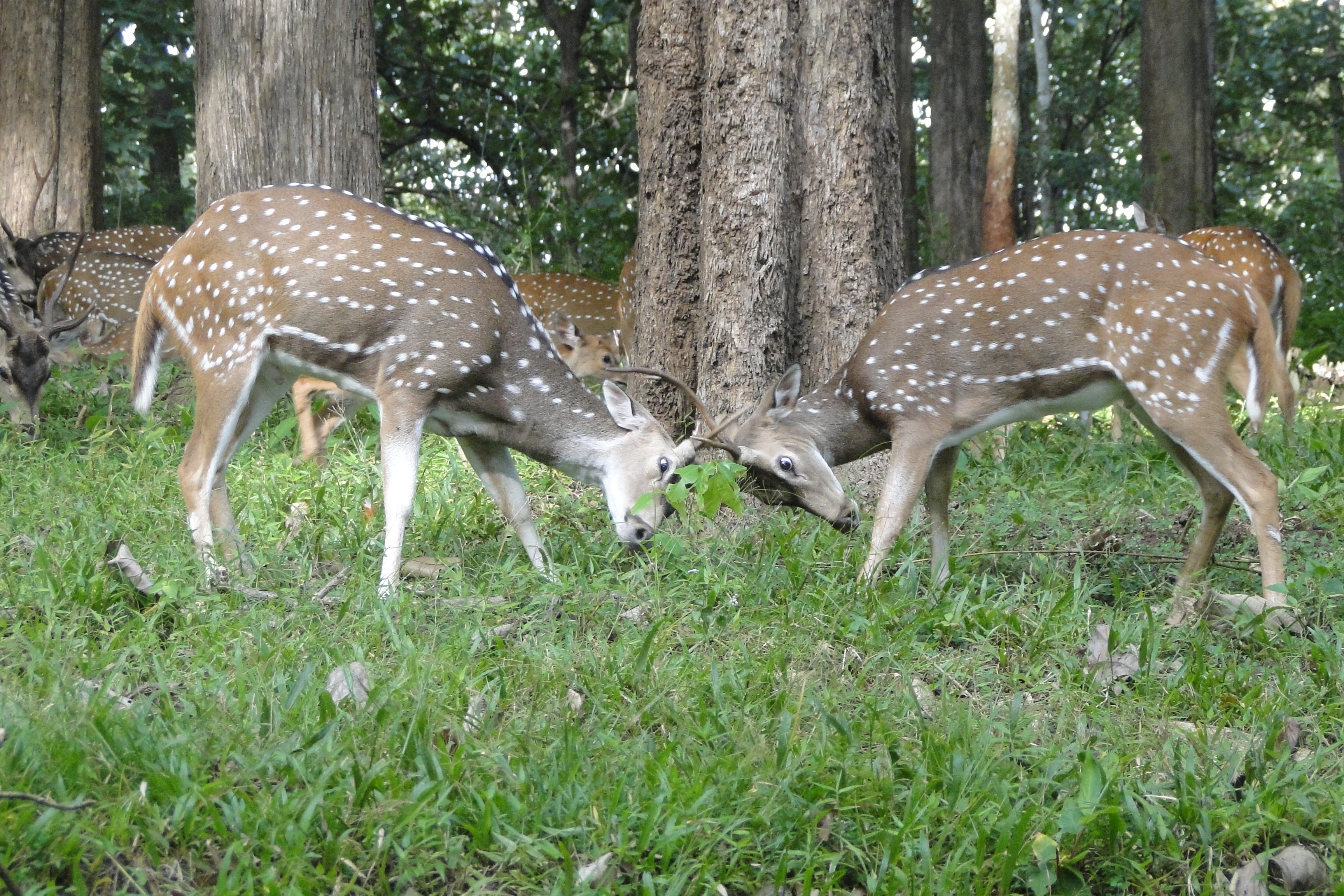 the antler fight